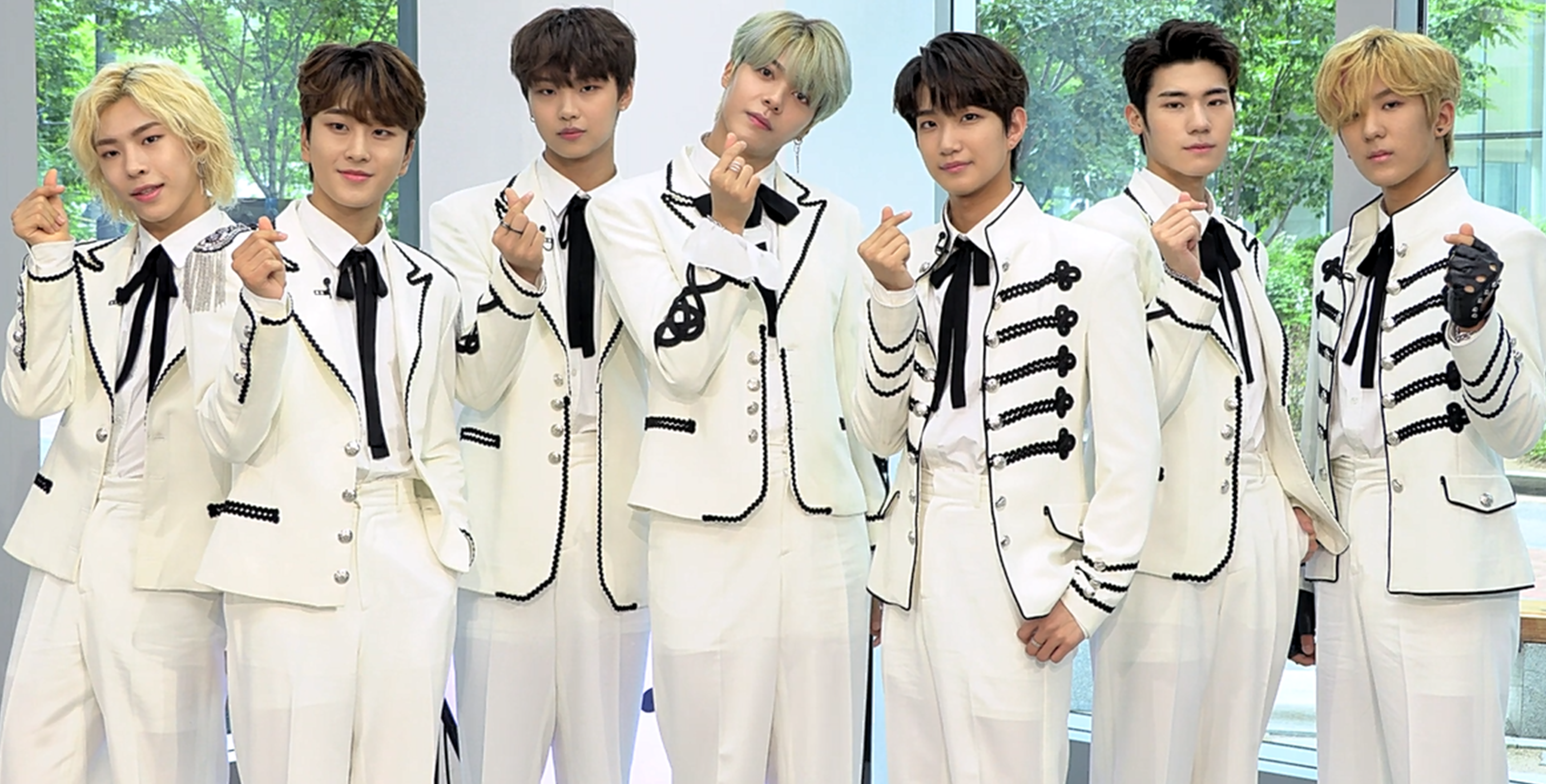 NewKidd during a recording of Fact in Star held in Sangam-dong, Seoul on June 18, 2019. (L-R: Hwi, Jinkwon, Yunmin, Ji Han-sol, Woochul, Choi Ji-ann, and Kang Seung-chan.)